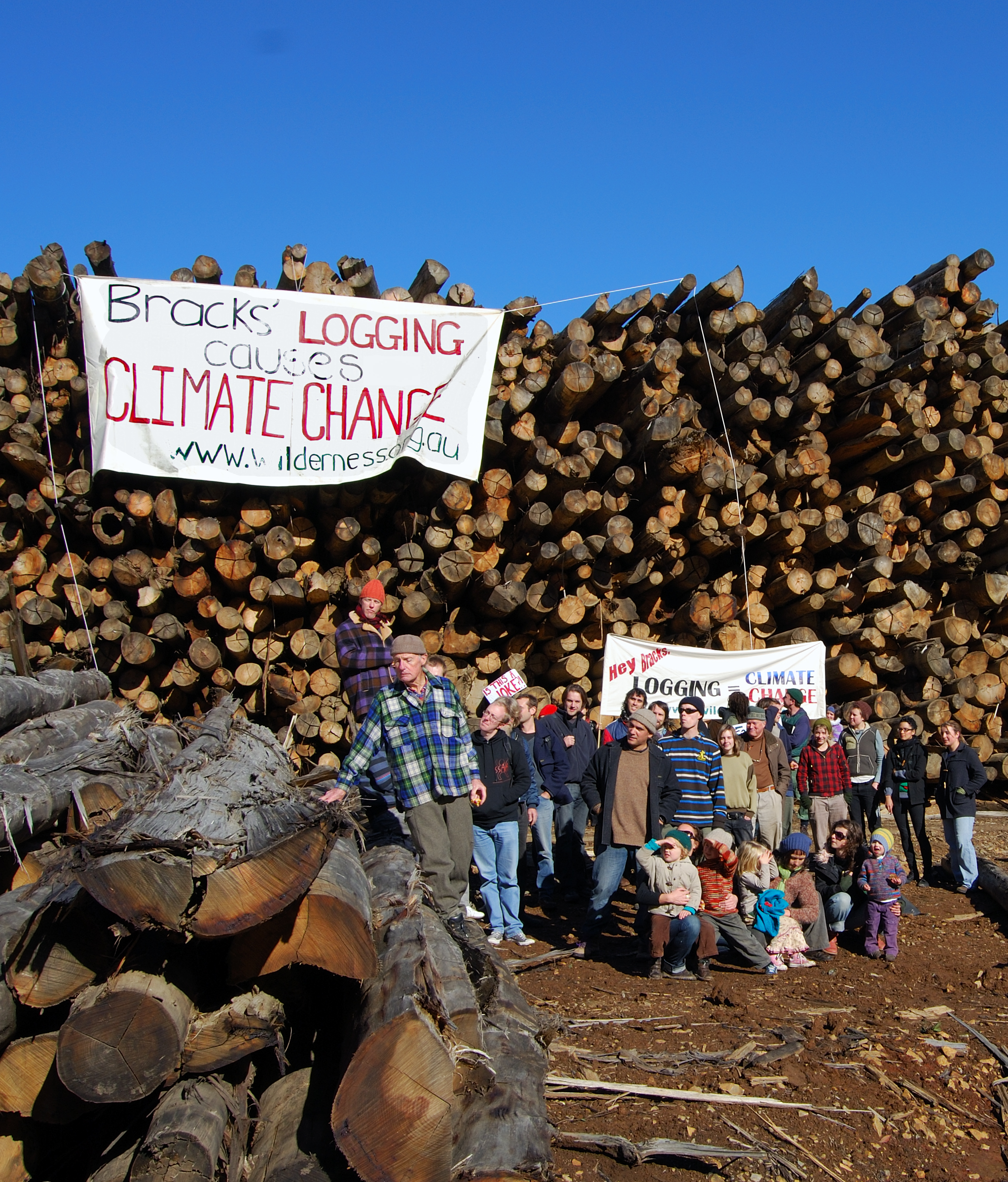 Protesters prepare for a photo on World Environment Day at a log dump in the Central Highlands, Victoria, Australia. Signs read: "Bracks' Logging causes Climate Change" and "Hey Bracks, Logging = Climate Change